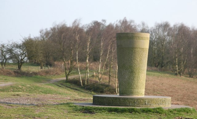 Downs Banks Viewing table at Downs Banks.